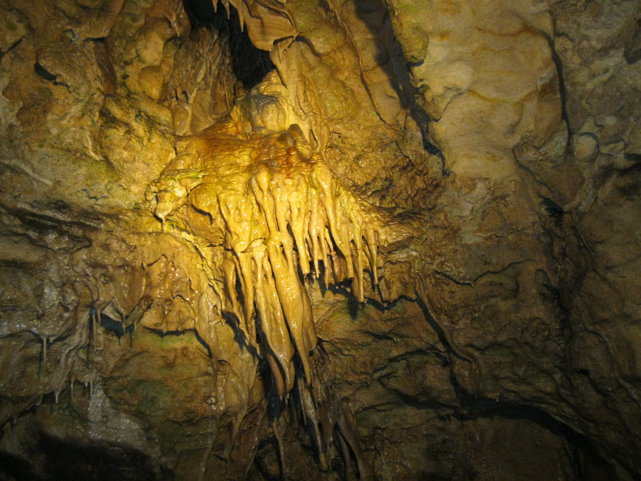 Stalactites in the Pál-völgy Cave